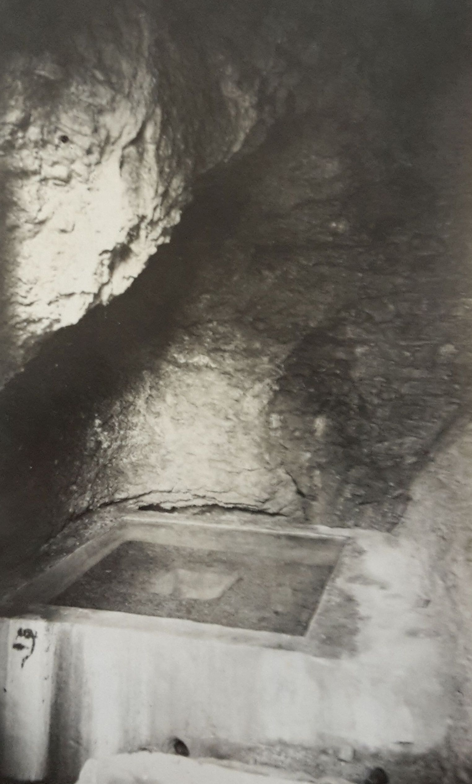 sulfur source-basin in Hohenems, Vorarlberg, Austria at sulfur wells.